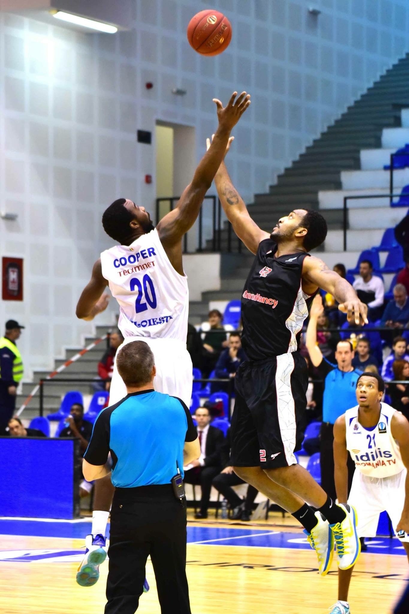 TipOffShot2015